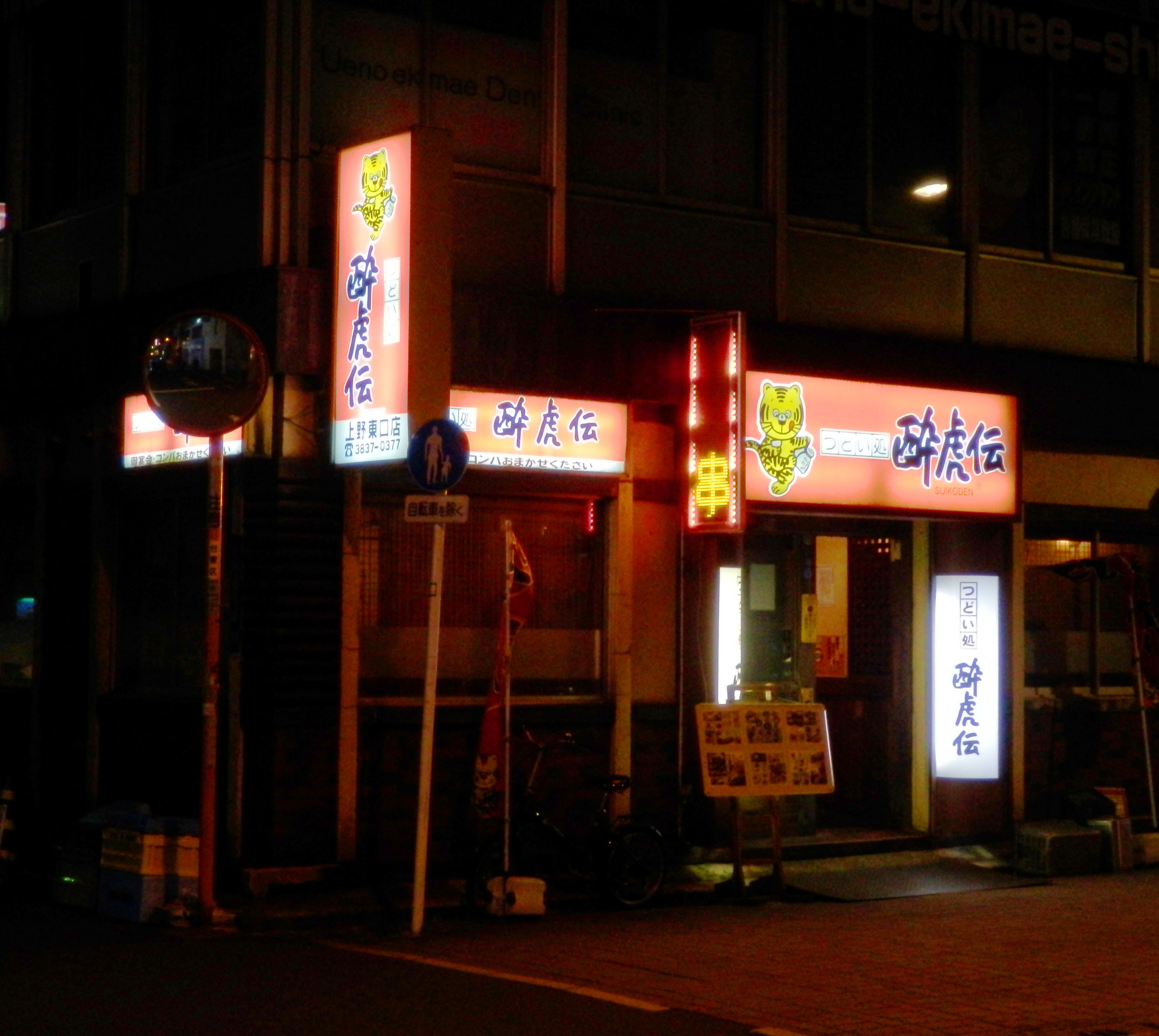 Suikoden (Japanese bar chain) Ueno-Higashiguchi branch (Tokyo, Japan)